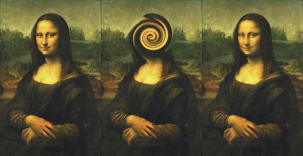 Mona_lisa twirled and untwirled with Photoshop